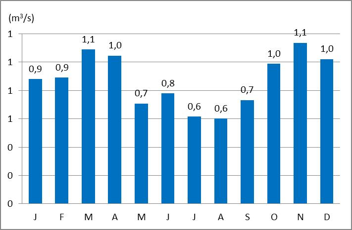 Average monthly discharges of Voglajna River at the gauging station Celje II in 1971–2000